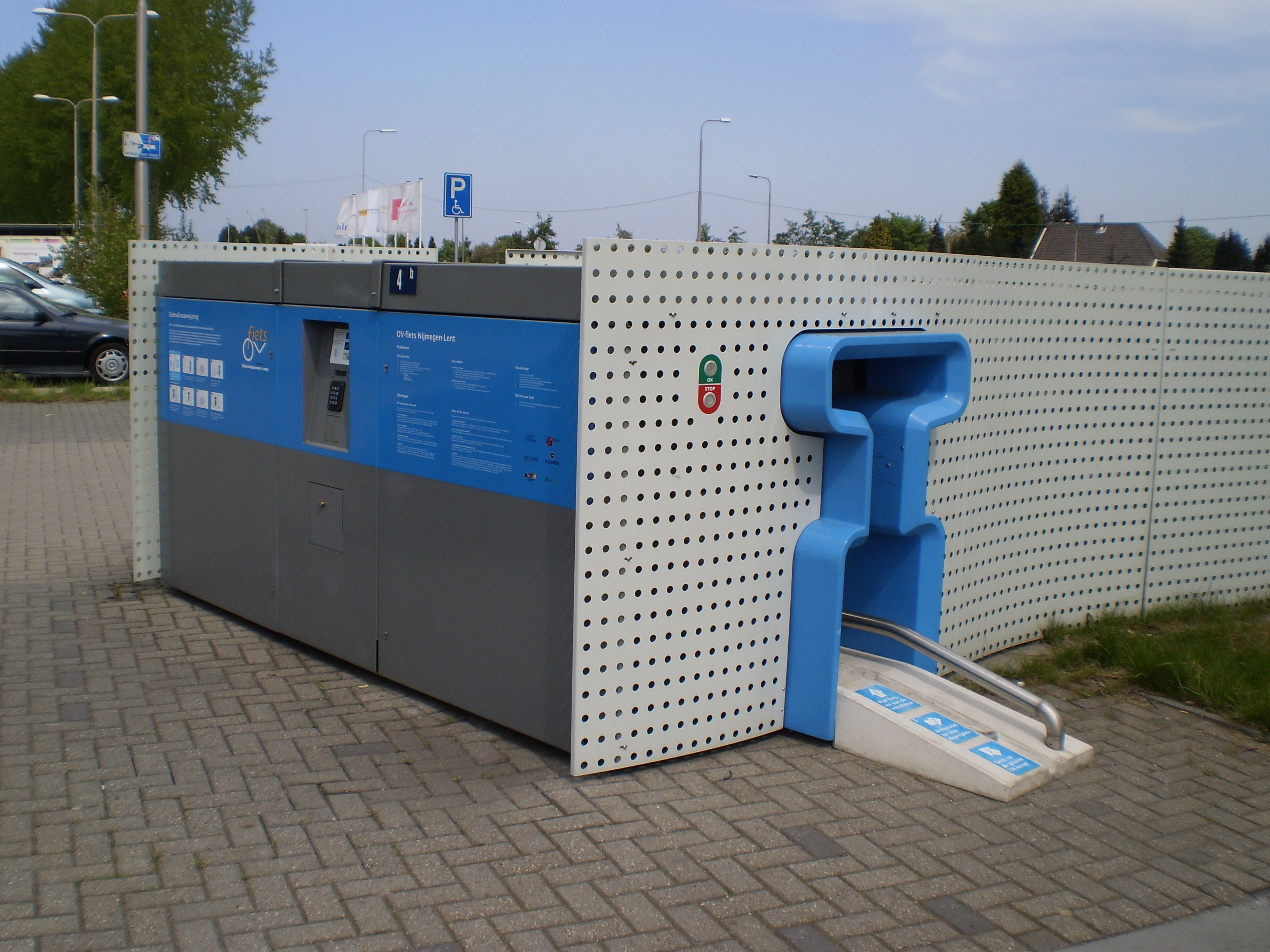 BikeDispenser at Lent Station